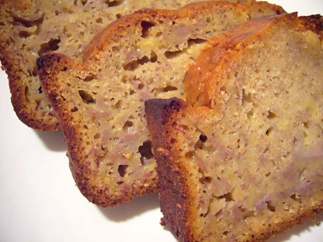 Whole wheat banana bread slices.